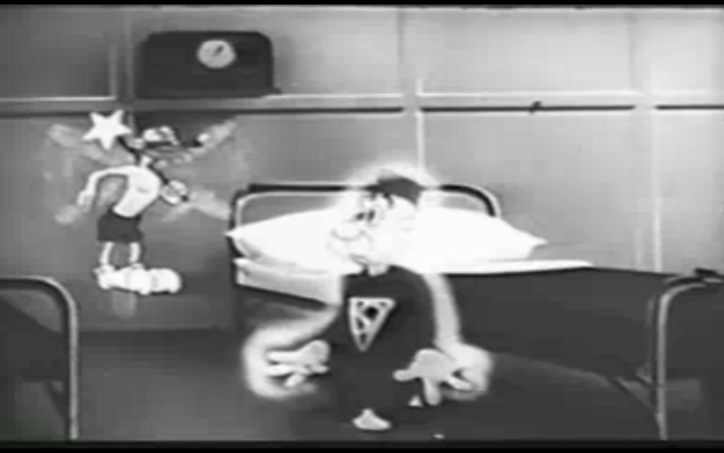 Technical Fairy, First Class, transforms Private Snafu into superhero Snafuperman. Scene from Snafuperman, a 1944 animated short comedy produced by Warner Brothers Pictures and directed by Friz Freleng, one of a series of black and white "Private Snafu" cartoons created for the Army-Navy Screen Magazine.